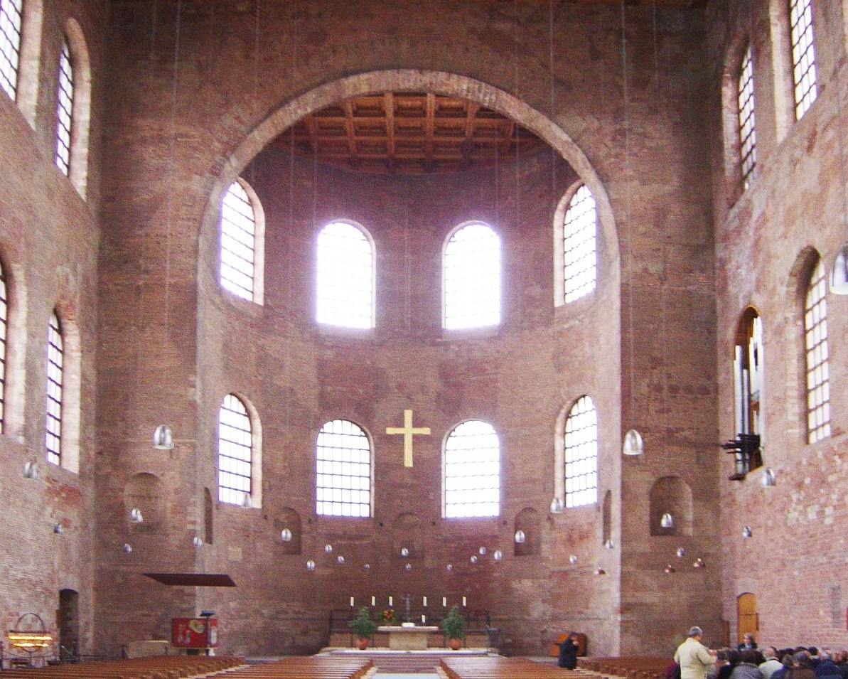 The interior of the Roman basilica in Trier, Germany (see Trier)